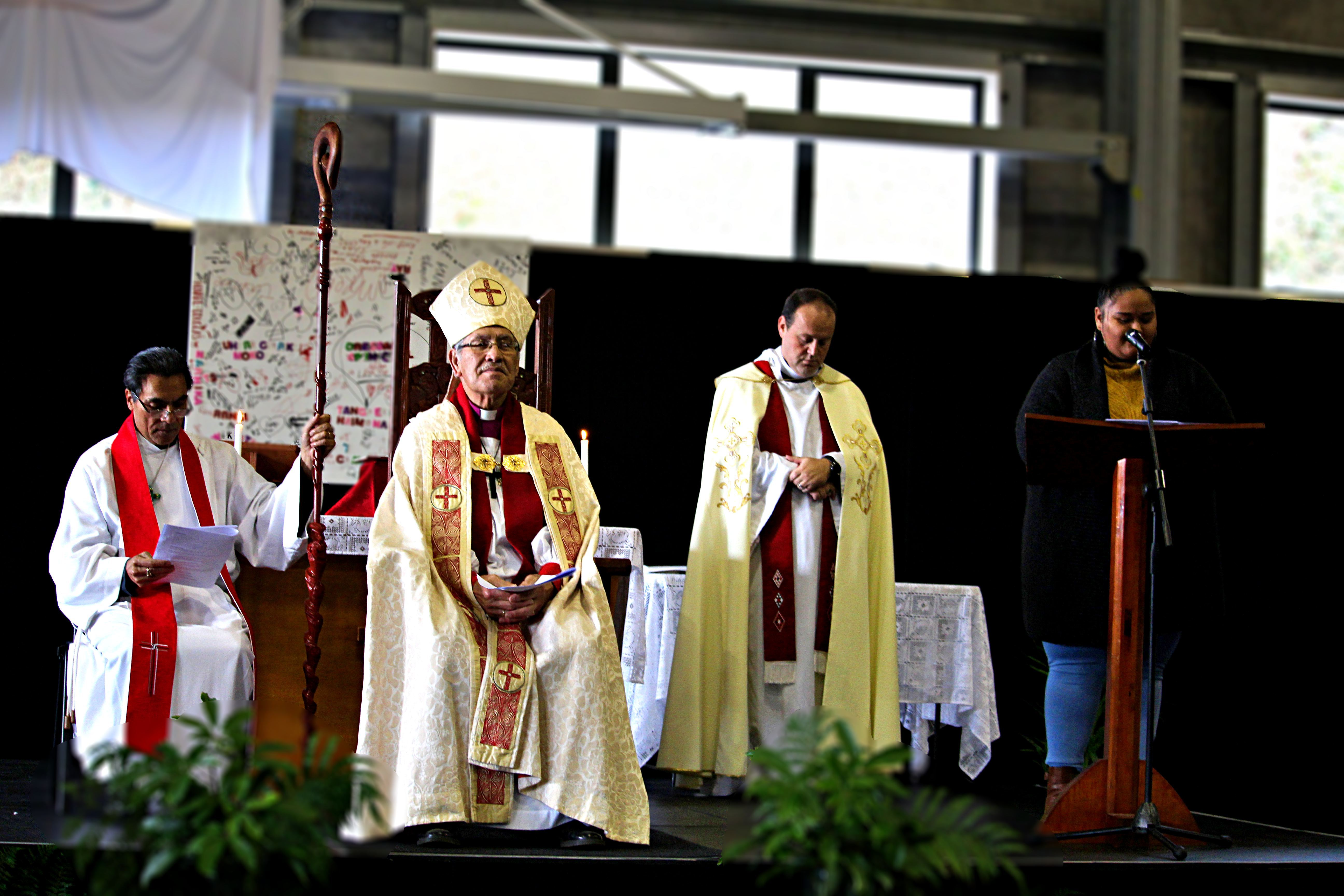 Bishop Ngarahu Katene (seated) enjoys a quiet moment during an annual Confirmation Service in 2019. L-R: Rev'd Canon Robert Kereopa, Rt Rev'd Ngarahu Katene, Ven Ngira Simmonds